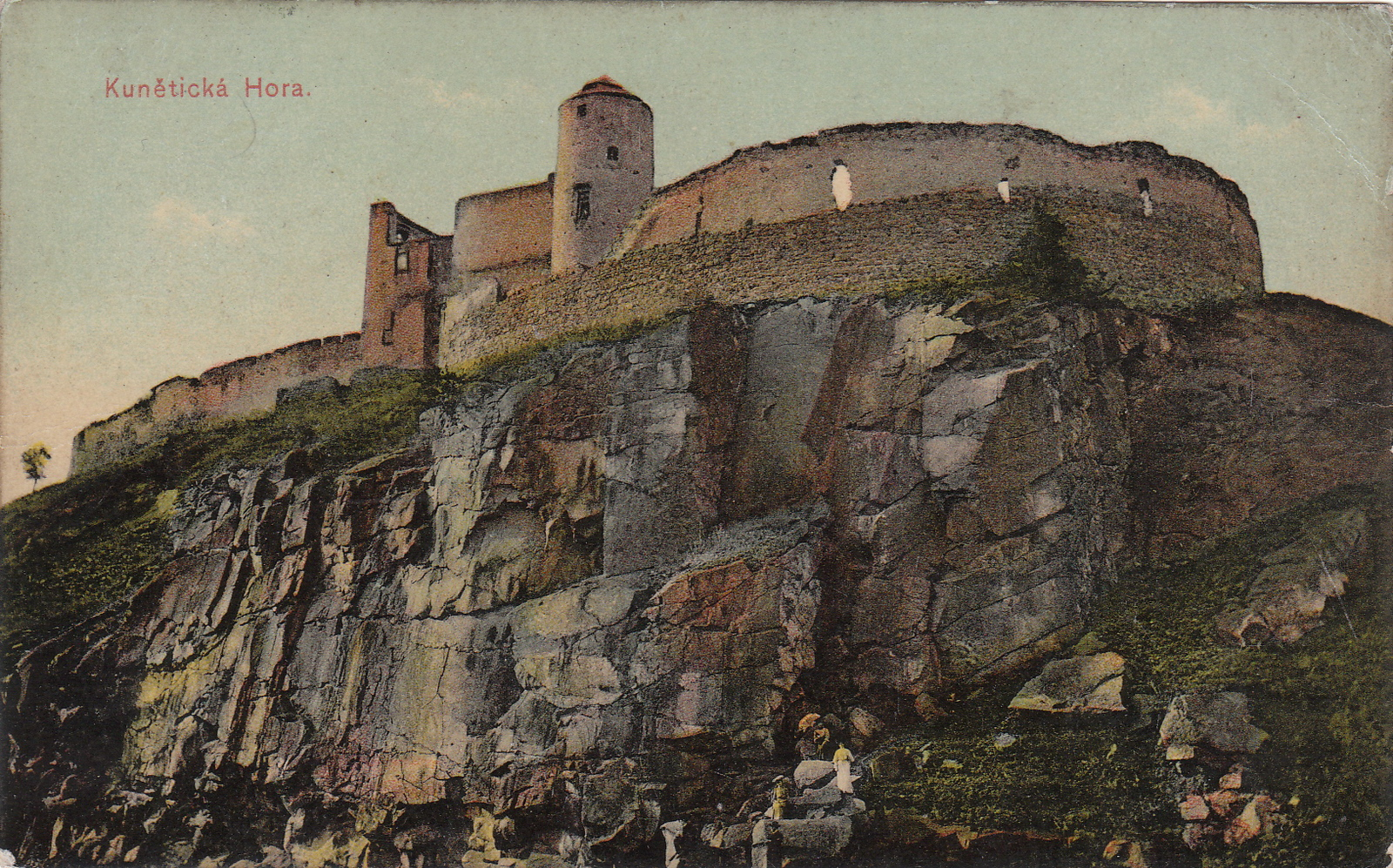 Kunětická hora, a hill and castle of the same name in the Czech republic, NNE of Pardubice above village of Ráby. Česky: Kunětická hora, vrch a stejnojmenný hrad v Čechách, ssv. od Pardubic na katastru obce Ráby